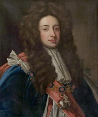 Portrait of Duke of newcastle